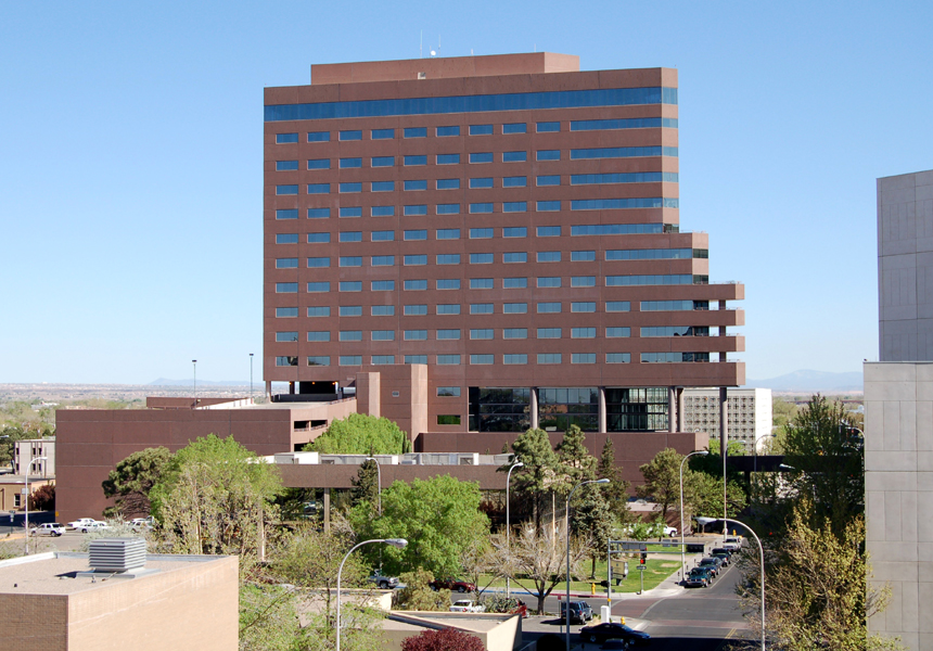 Albuquerque Petroleum Building. Photo by camerafiend.